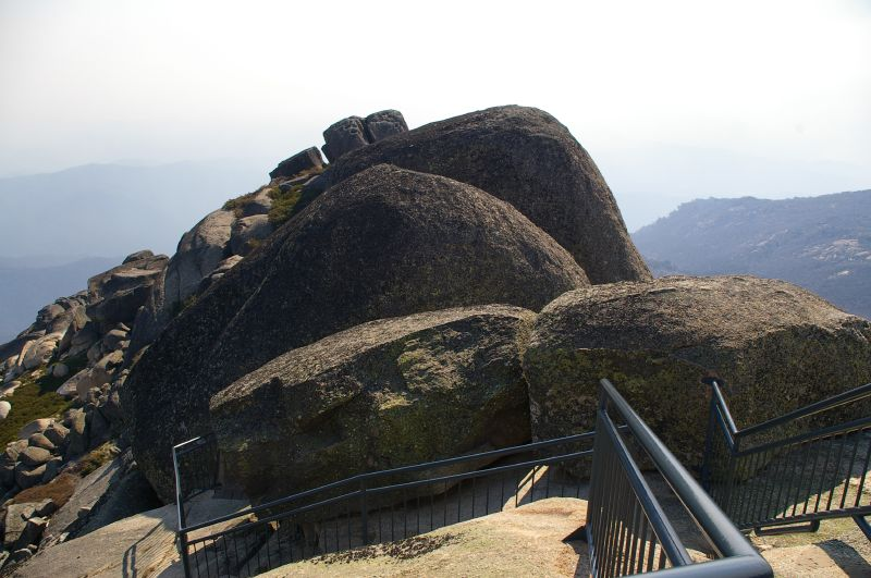 The Horn